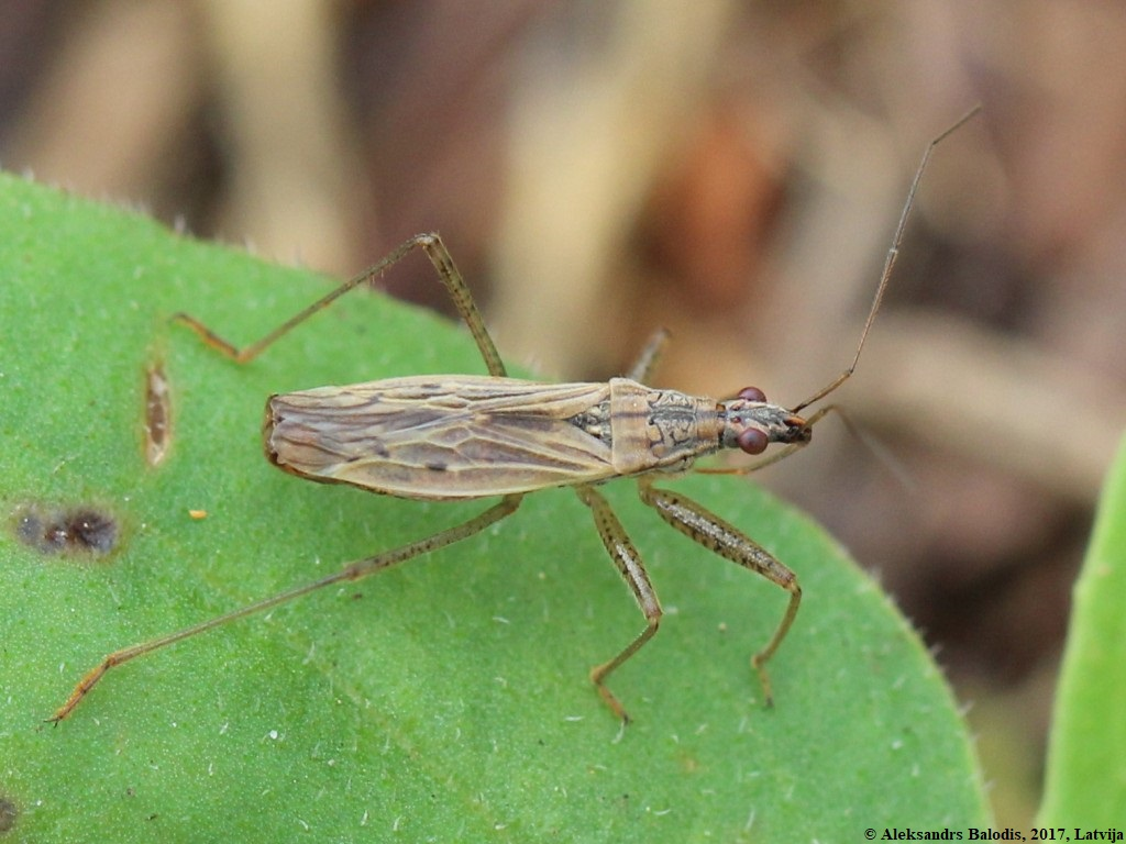 Nabis rugosus